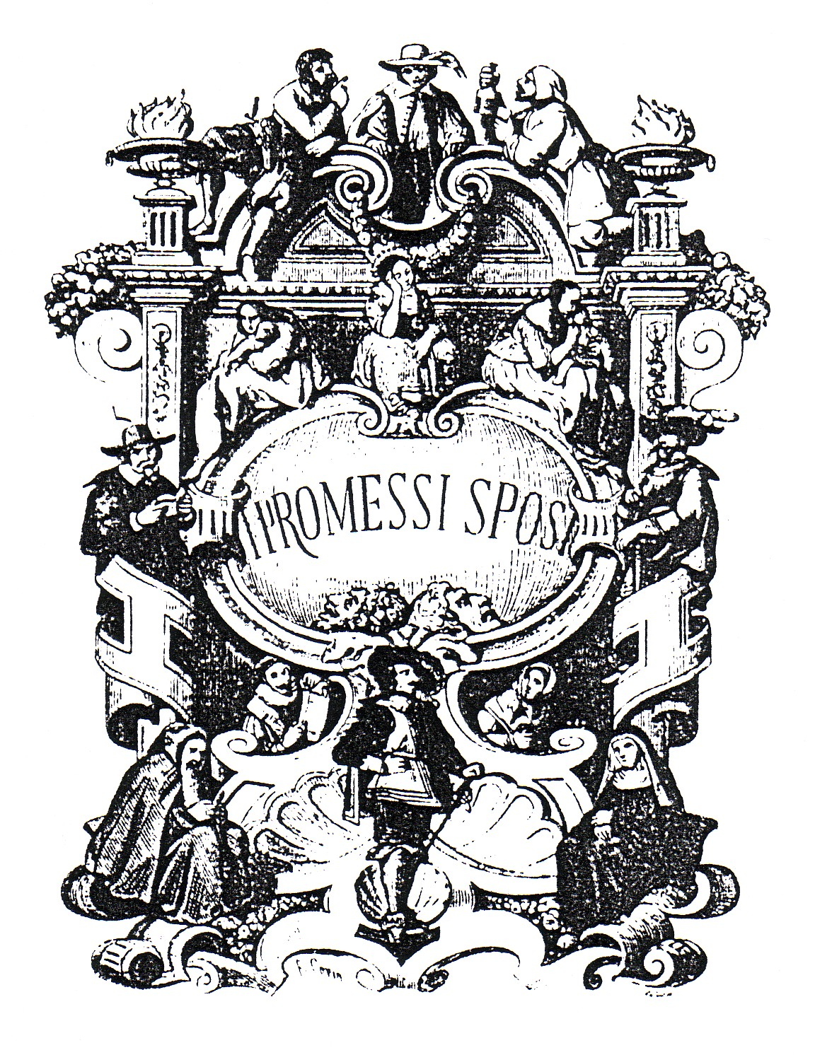 Frontispiece of the second edition of I promessi sposi.